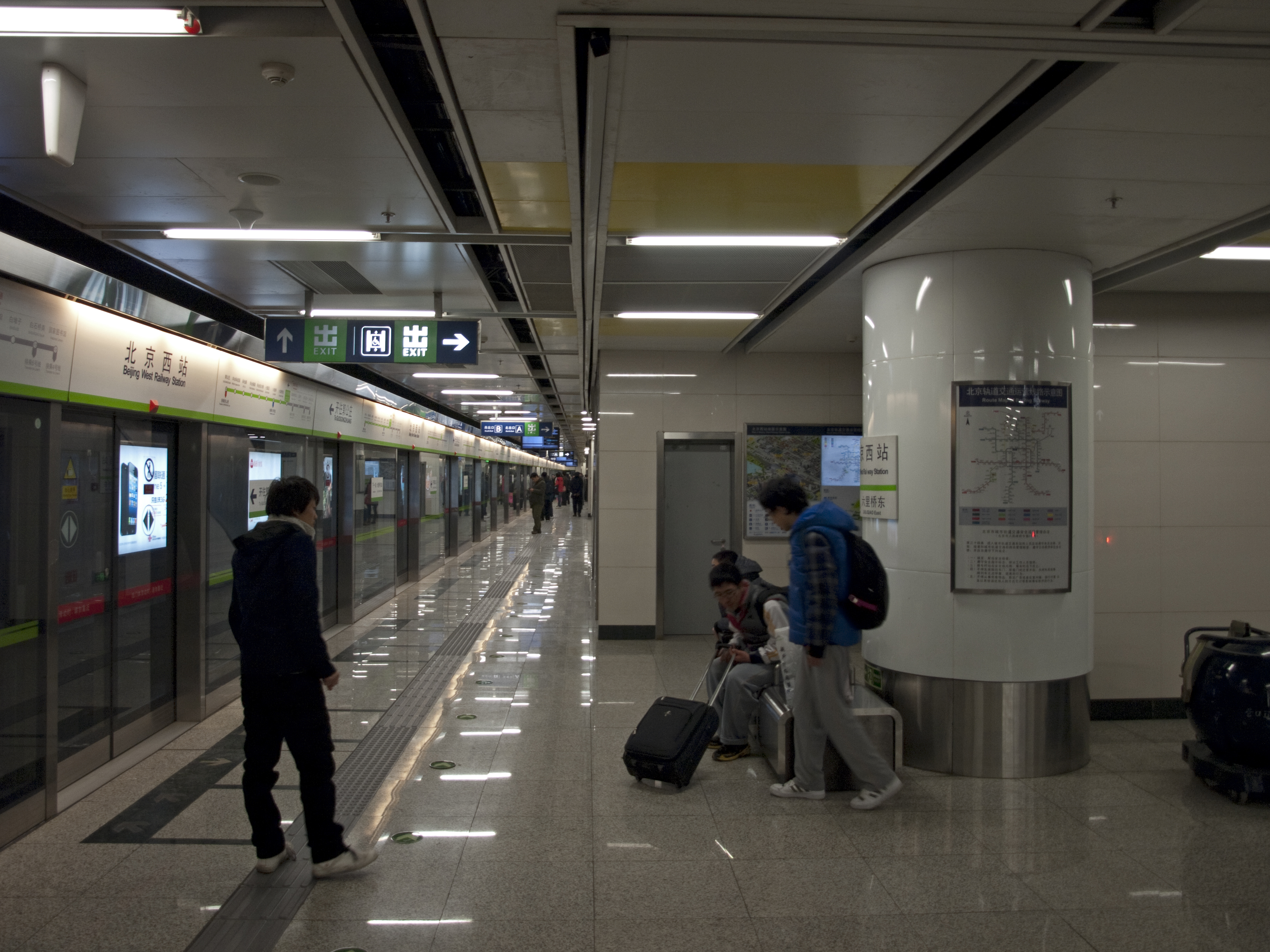 Beijing West Ralway Station, Beijing Subway